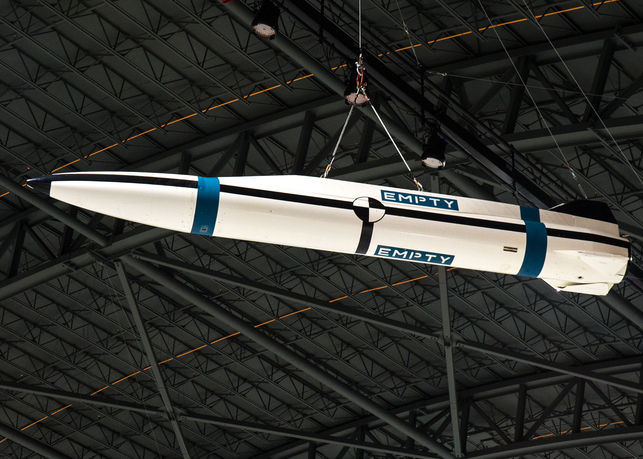 Boeing AGM-131A SRAM II in the Research & Development Gallery at the National Museum of the U.S. Air Force on December 28, 2015. (U.S. Air Force photo)